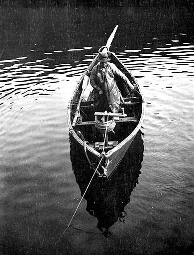 From John Cobb field notebook: Hand-line cod fisherman, Alaska. 1912 Subjects (LCTGM): Fishing--Alaska; Fishermen--Alaska Subjects (LCSH): Cod fisheries--Alaska; Codfish--Alaska; Rowboats--Alaska